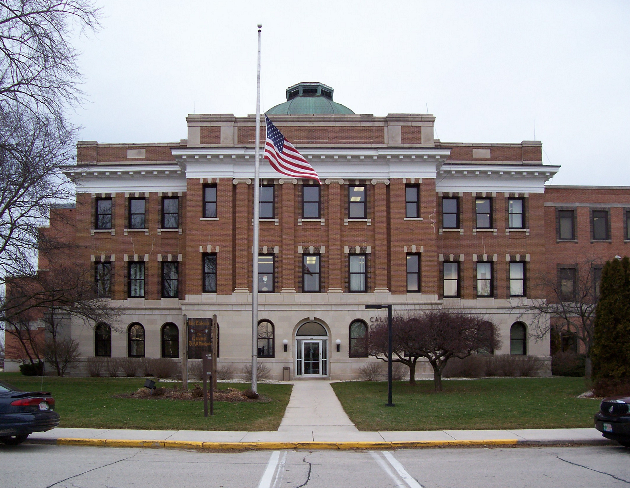 The Calumet County courthouse in Chilton, Wisconsin, USA. The courthouse is listed on the National Register of Historic Places.